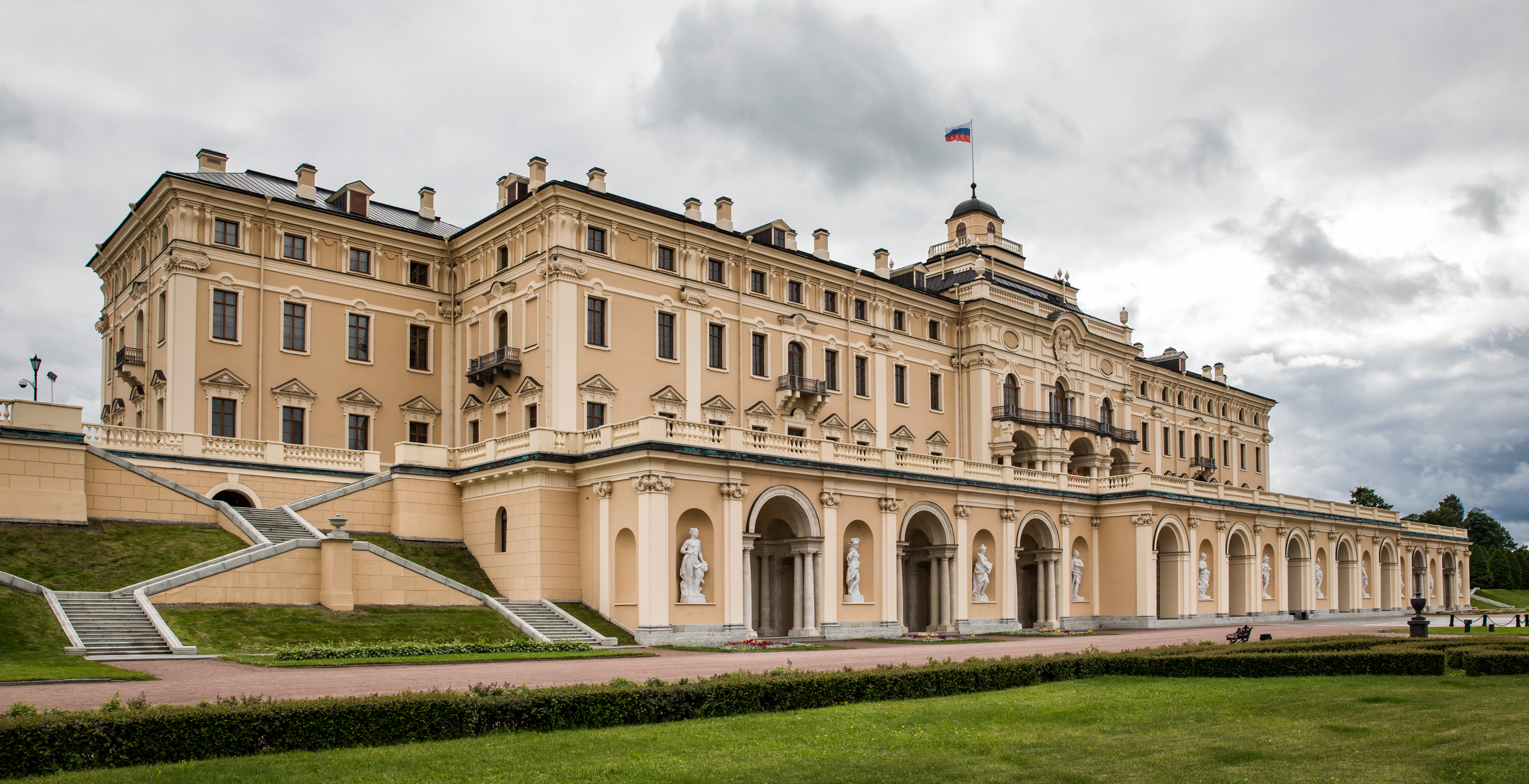 Saint Petersburg, Russia Strelna, Constantine Palace, Congress Palace Putin's residence in Saint Petersburg "The grand residence in Strelna was founded by Peter the Great. The construction of the ensemble began with the laying of the Lower regular park in 1715. And 5 years later, in 1720, architect Nicola Michetti started the construction of a big stone palace. However the ensemble wasn’t finished until the end of the XVIII century. In the XIX century almost neglected imperial residence became the country estate of grand dukes of the House of Romanovs. After the revolution here the school was placed; and in 1950s the palace, which sustained a great damage during the occupation of Strelna by the fascists, was reconstructed into Leningrad arctic college. In the beginning of the new century Konstantinovsky palace and park ensemble found a new high mission by getting a status of the State Complex “The National Congress Palace”. The restoration works under the authority of the Administrative department of the President of the Russian Federation were finished in 2003 for the 300 anniversary of St. Petersburg. The revived Konstantin palace combined the functions of a State residence and a modern business, museum, cultural and exhibition centre."